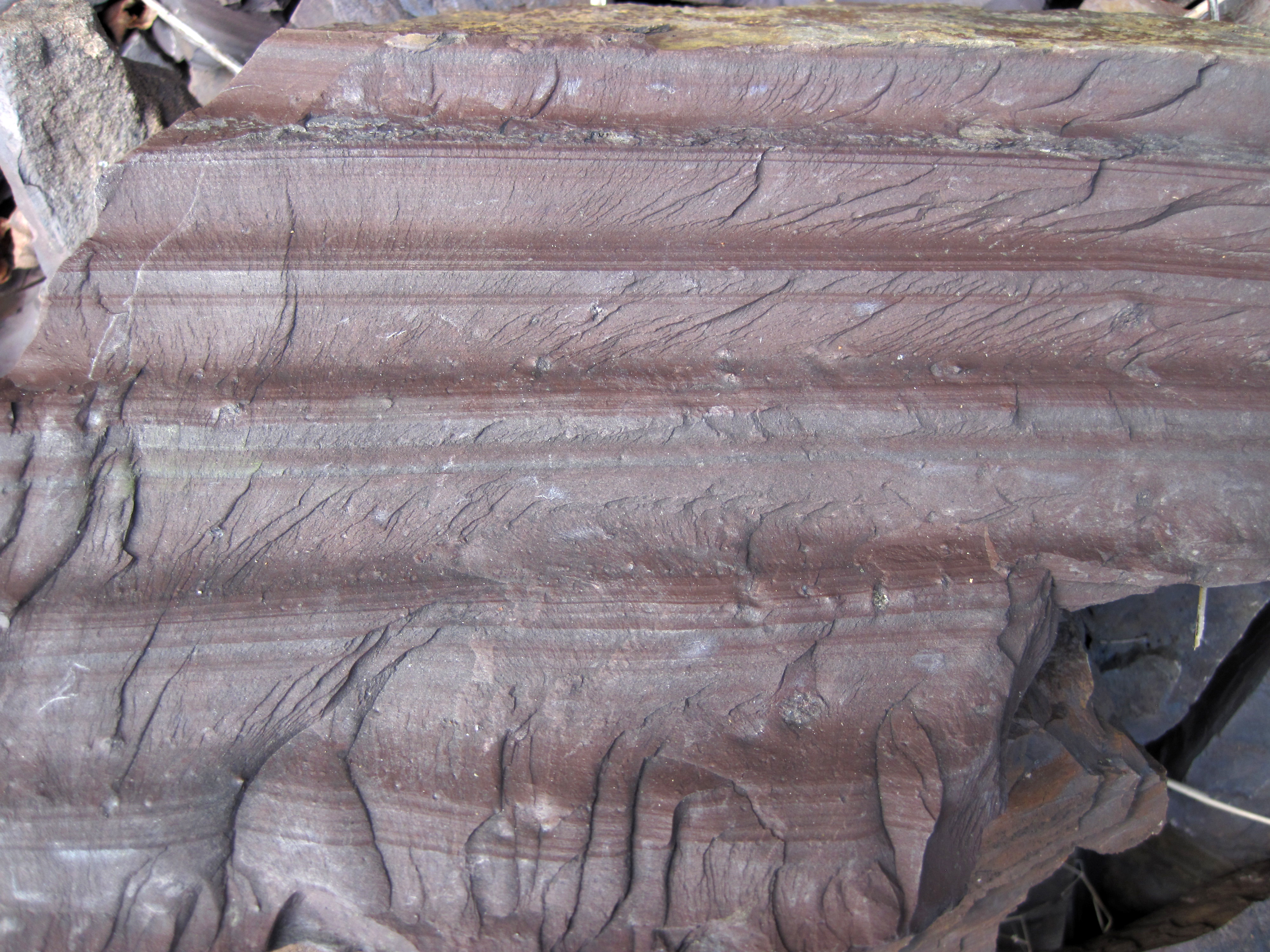 Proglacial lacustrine rhythmitic argillite from the Precambrian of Virginia, USA. The Snowball Earth Glaciations during the Neoproterozoic were the most significant ice ages that Earth ever experienced - two or three of them occurred in succession. The most extreme models describing Snowball Earth have glacial ice completely covering all continents and all oceans, even at the equator. Some models, called “Slushball Earth”, have Earth’s equatorial oceanic areas not completely frozen over. Each Snowball Earth Glaciation was followed by a super-greenhouse climate. The resulting sedimentary record of these “freeze-fry” events typically consists of glacial tillites and overlying cap carbonates. These units are preserved at many localities on Earth. The rock shown above has well-preserved horizontal laminations in argillite (= a very low-grade metamorphic rock formed by slight alteration of shale). Note that the laminations are rhythmic in their thicknesses and weathering pattern. These are rhythmites. Published research has identified these sediments as proglacial lacustrine turbidites - they appear to be varves. Varves are common sedimentary units in Pleistocene proglacial lake settings. This is a Snowball Earth equivalent. The rhythmicity reflects seasonal changes (summer-winter-summer-winter, etc.). Demonstrable annual layering is scarce in the sedimentary rock record. Stratigraphy: Konnarock Formation, Neoproterozoic, ~750 Ma Locality: Grassy Branch Outcrop - roadcut on the northern side of Rt. 603, just downstream from the Big Laurel Creek-Grassy Branch confluence, west of the town of Troutdale & east of the town of Konnarock, southern Smyth County, southwestern Virginia, USA (36º 40.900’ North latitude, 81º 33.988’ West longitude)